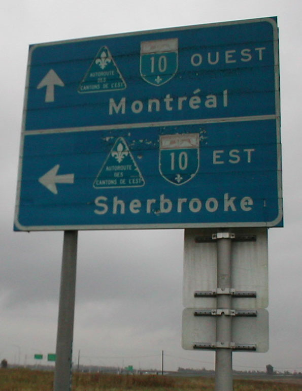 Old sign at the A10/A35 interchange south of Chambly. Taken September 15, 2002 by User:SPUI.